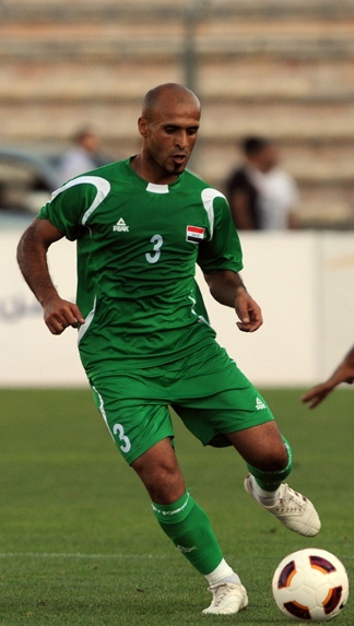 Iraq's Basem Abbas fights for the ball with Jordan Hayl during their soccer match of the FUCHS four-nation soccer tournament in Amman July 16, 2011. The four participating nations are Jordan, Saudi Arabia, Iraq and Kuwait.